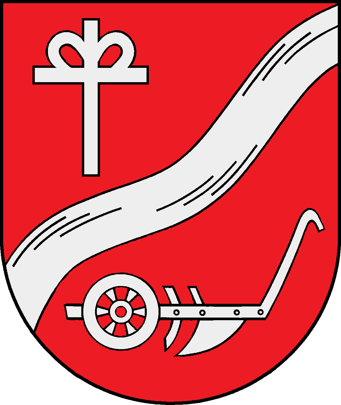 Coat of arms of the municipality Rickling in Schleswig-Holstein, Germany.